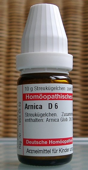 Arnica montana, Homeopathy, Germany